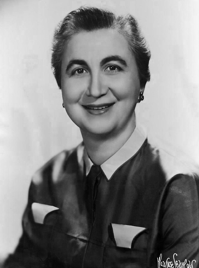 Photo of Dr. Frances Horwich who was "Miss Frances" on the children's television program Ding Dong School.